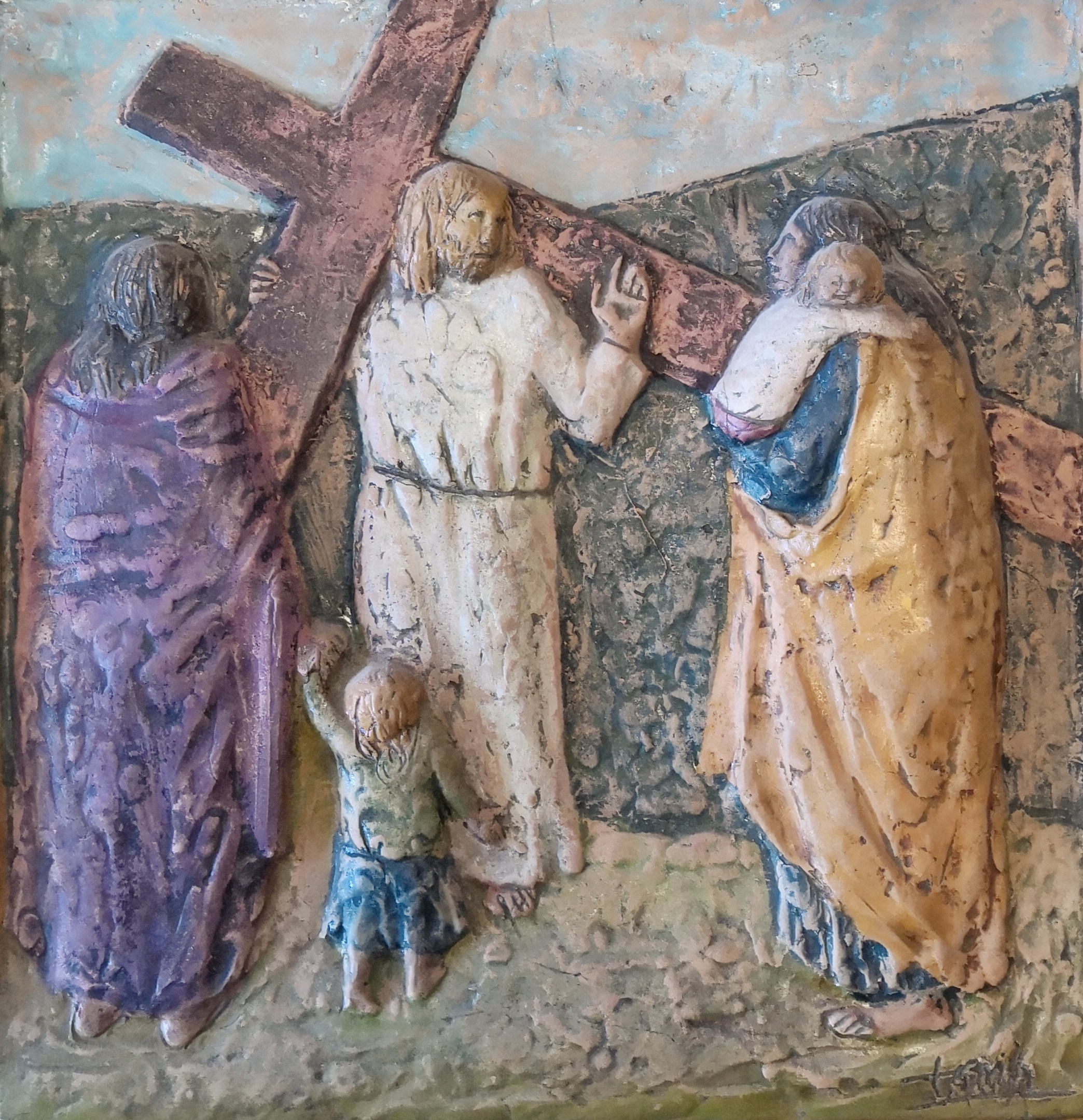 Cleto Tomba - Jesus Christ meets the Madonna and the pious women (Via Crucis IV) - private collection